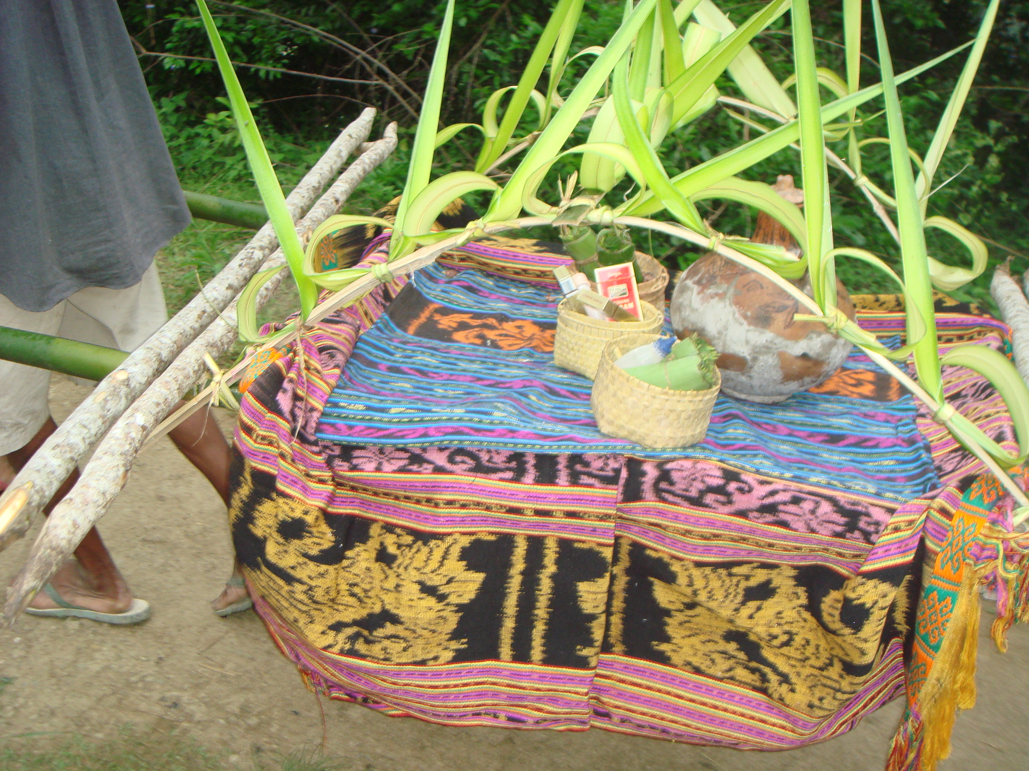 This is called 'Wai Malu" (water and the betle nut), from my family as 'Wife Giver/life giver' to 'Wife Taker/life taker' family. It symbolizes blessings from the life giver. This ceremony was in a Sacred House (Uma Lulik) inauguartion.